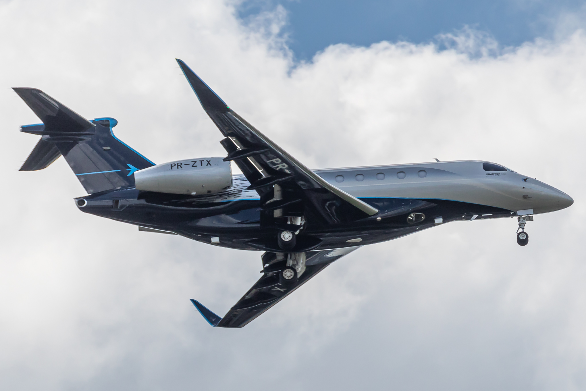 Embraer Praetor 600 at Paris Air Show 2019